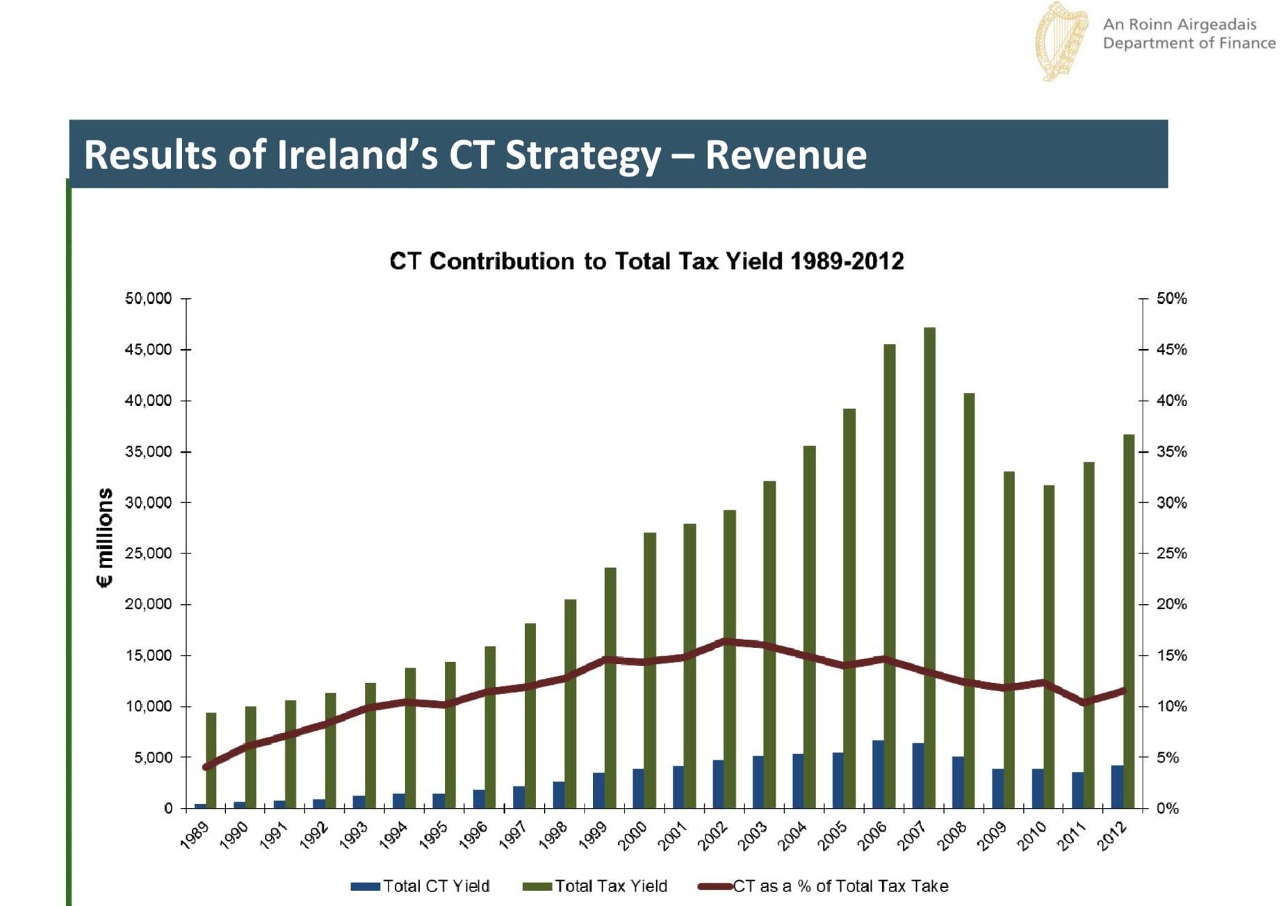 Irish Corporation Tax (1989 and 2012) and as a % of Total Irish Tax